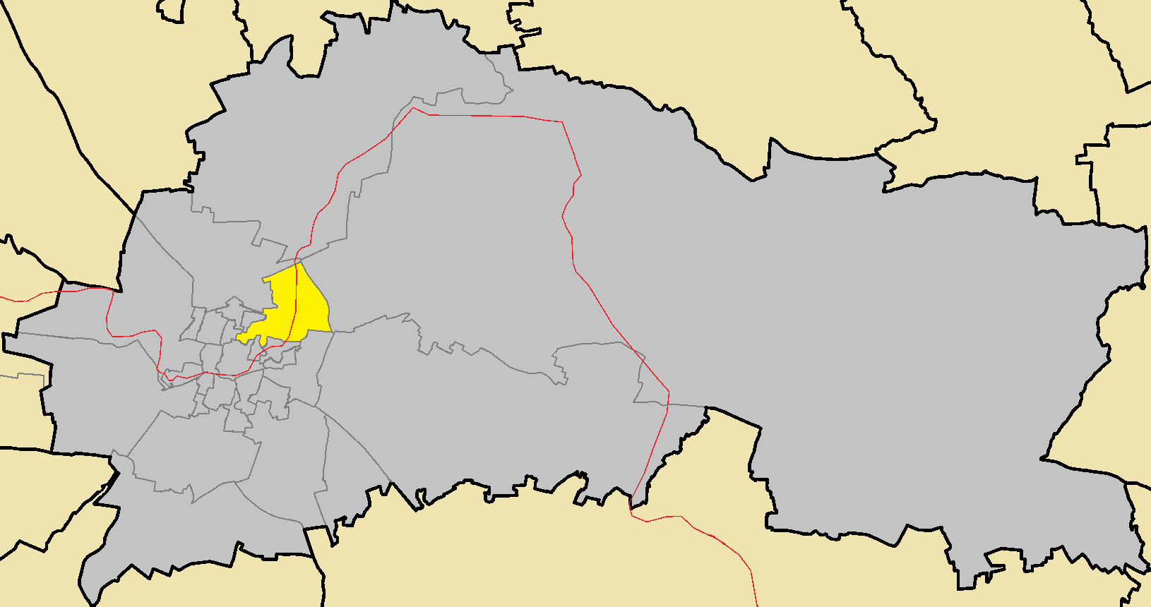 Yeni Jami in Nicosia Municipality (de jure).